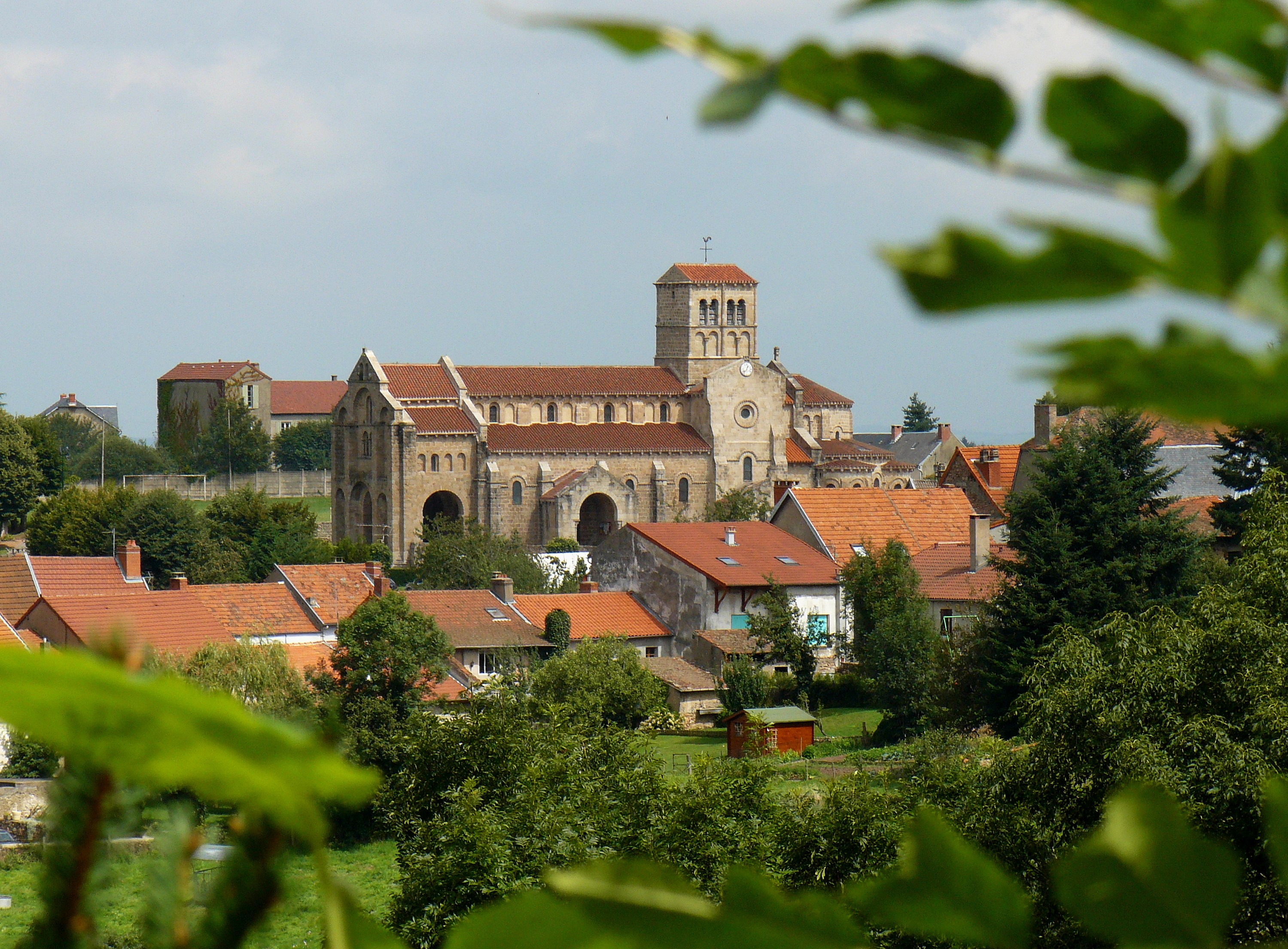 View over Châtel-Montagne (Allier, France)